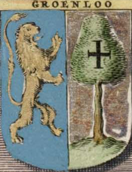 Coat of arms of Groenlo (Grol). Part of the Zutphania Comitatus map of 1664, of the Atlas van Loon.